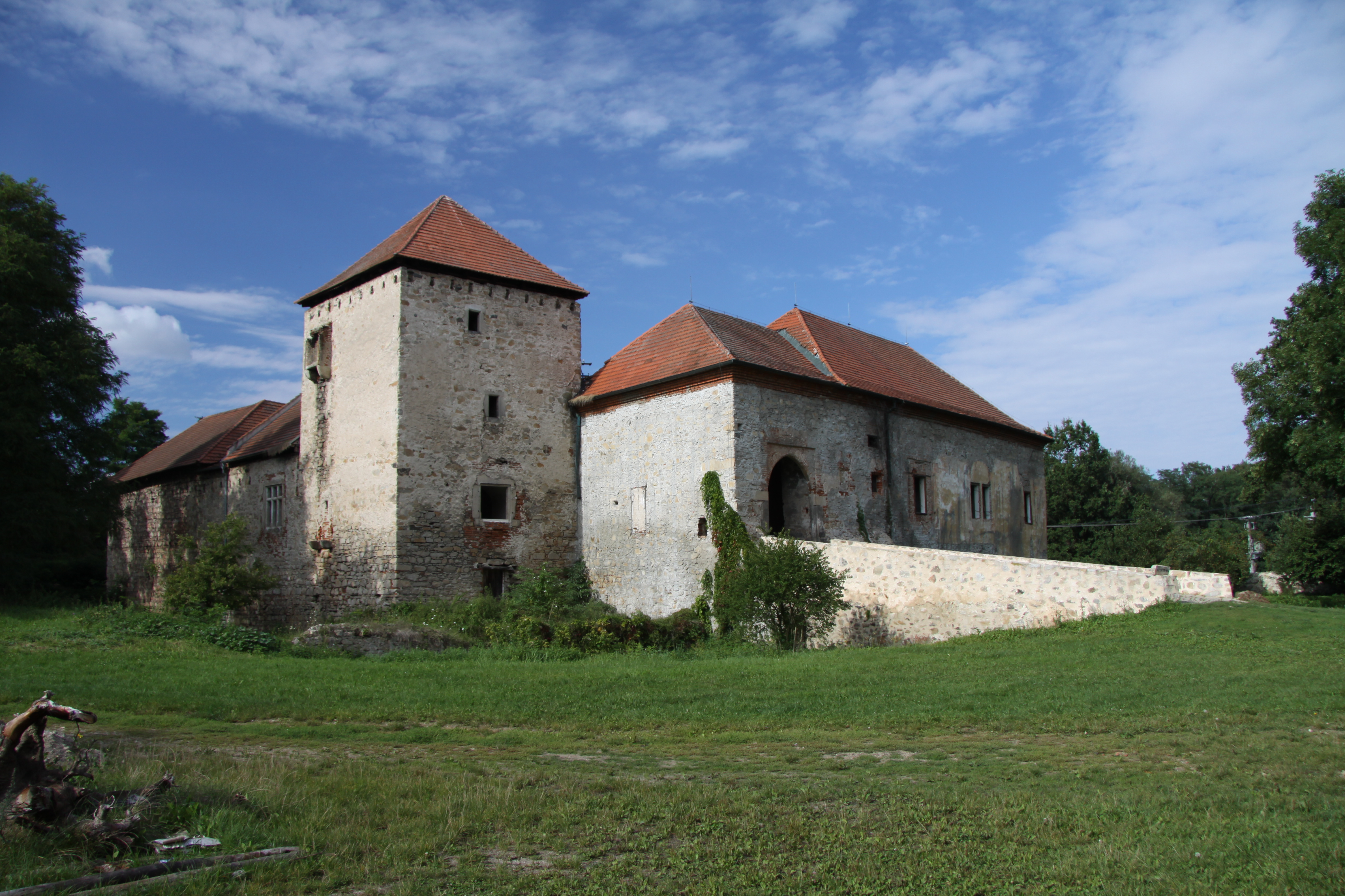 Castle "Horní tvrz" in Kestřany village, Písek district, Czech Republic.